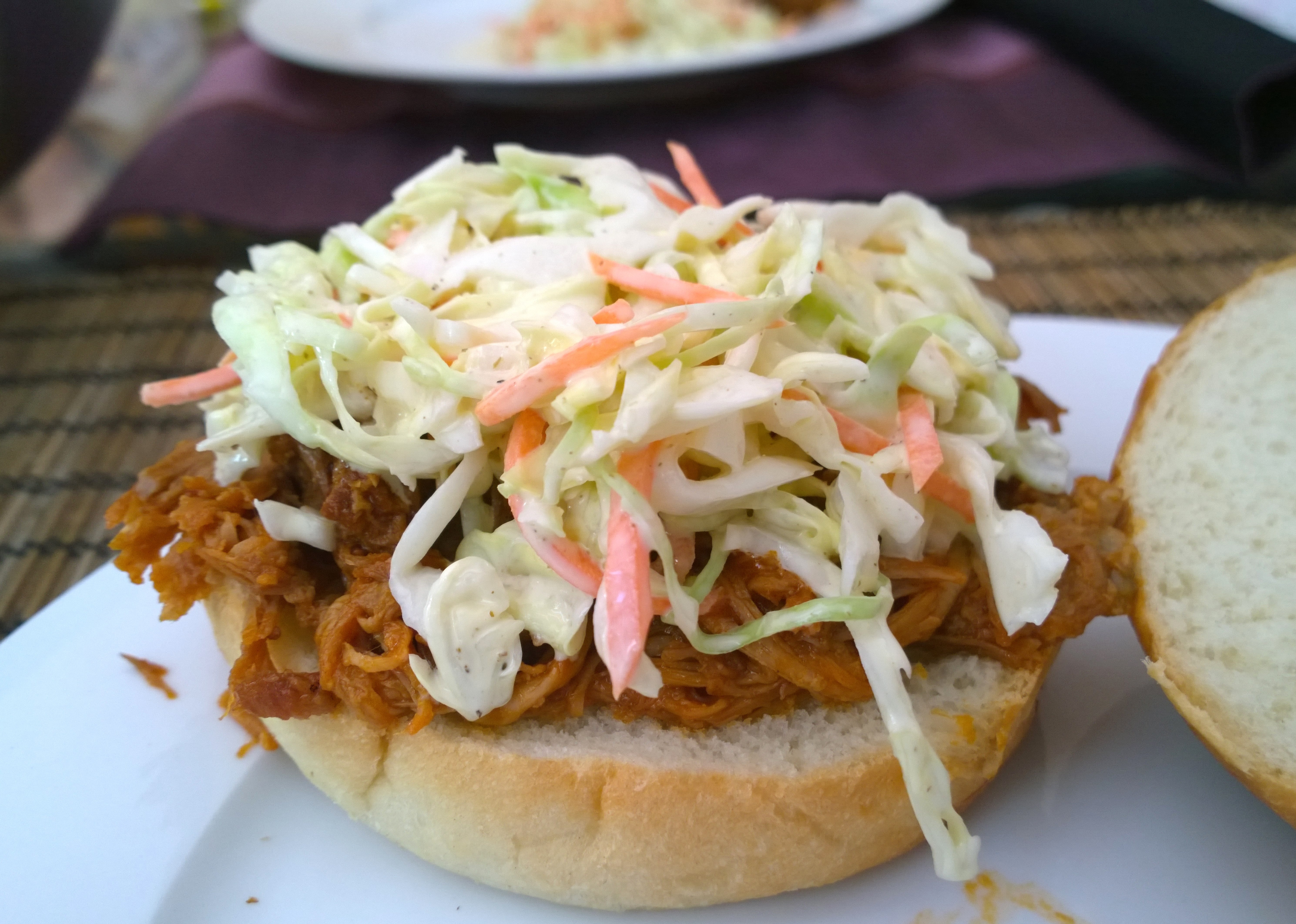 Homemade pulled pork and homemade coleslaw